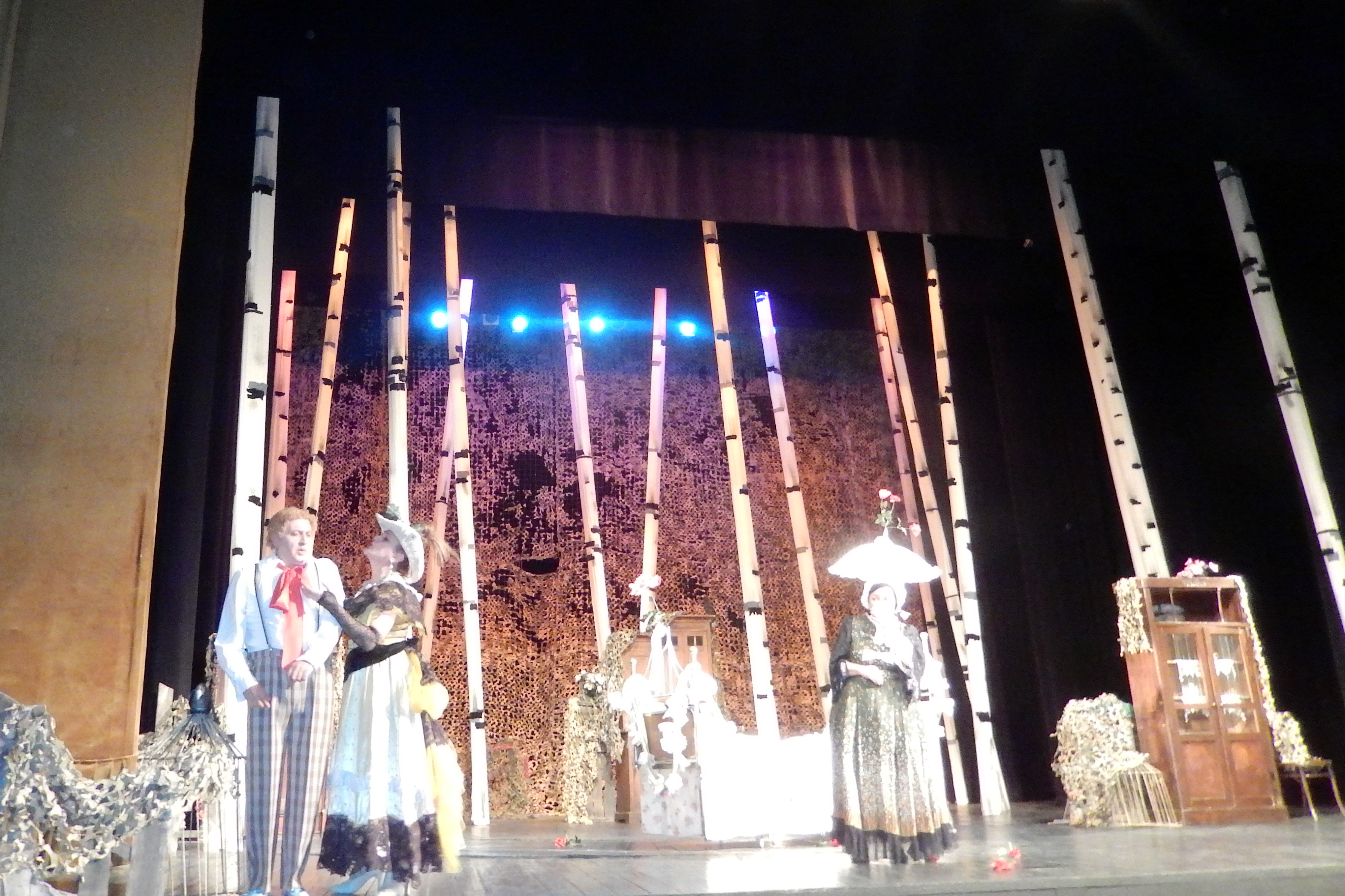 Հատված «Հարուստի աղջիկը տգեղ չի լինում» ներկայացումից, Հեղինակ` Ալեքսանդր Օստրովսկի, թարգմանությունը` Դ. Մուրադյանի Կատակերգություն 1 գործողությամբ Բեմադրությունը` ՀՀ ժողովրդական արտիստ Երվանդ Ղազանչյանի Լուսանկարում՝ Պավլա Պետրովնա Բալզամինովա` Տիգրանուհի Տեր-Մարկոսյան, Միխայլո Բալզամինով` Վարուժան Մանուկյան, Ակուլինա Գավրիլովնա Կրասավինա`Նարինե Ալեքսանյան